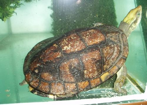 Cuora pani female by Torsten Blanck